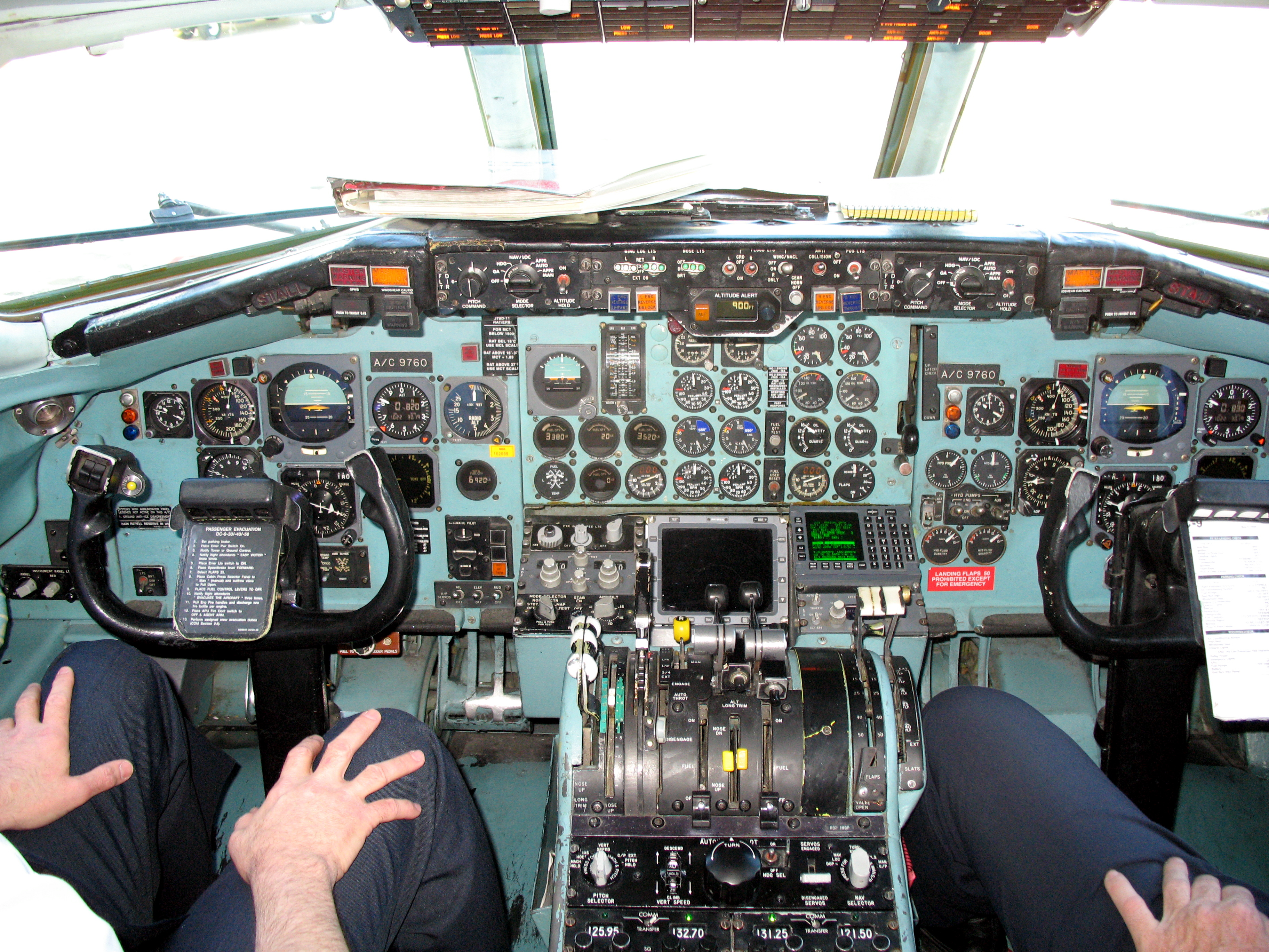 Cockpit of DC-9-40 (reg. 9760) belonging to Northwest Airlines. Picture taken on the ground at Port Columbus Intl. airport, Columbus, Ohio